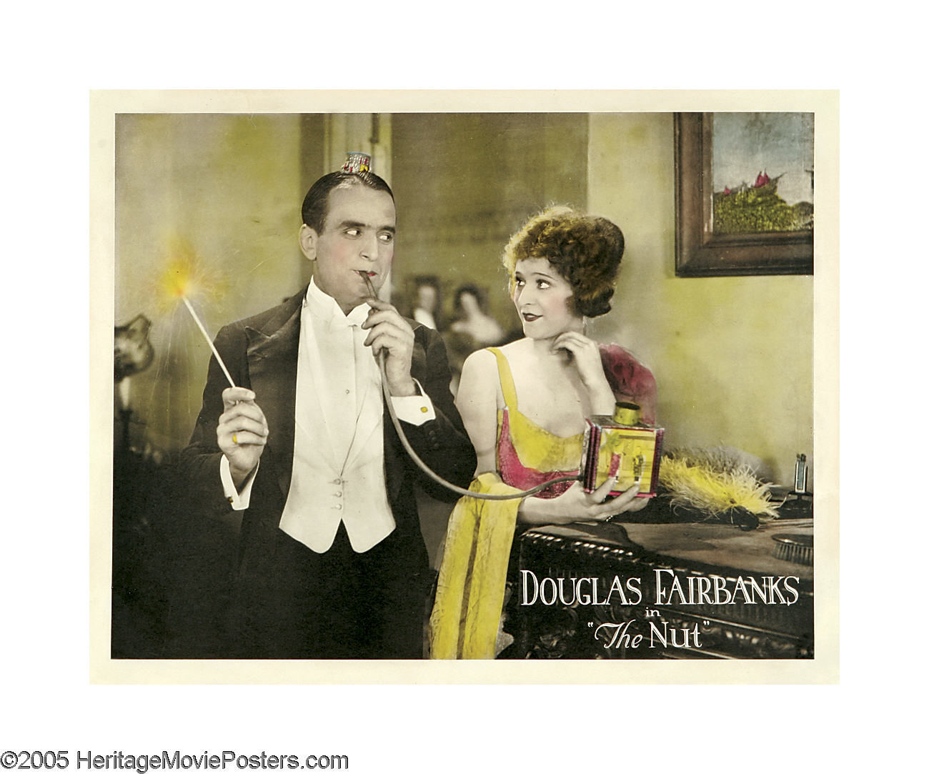 Lobby card for the American film The Nut (1921).